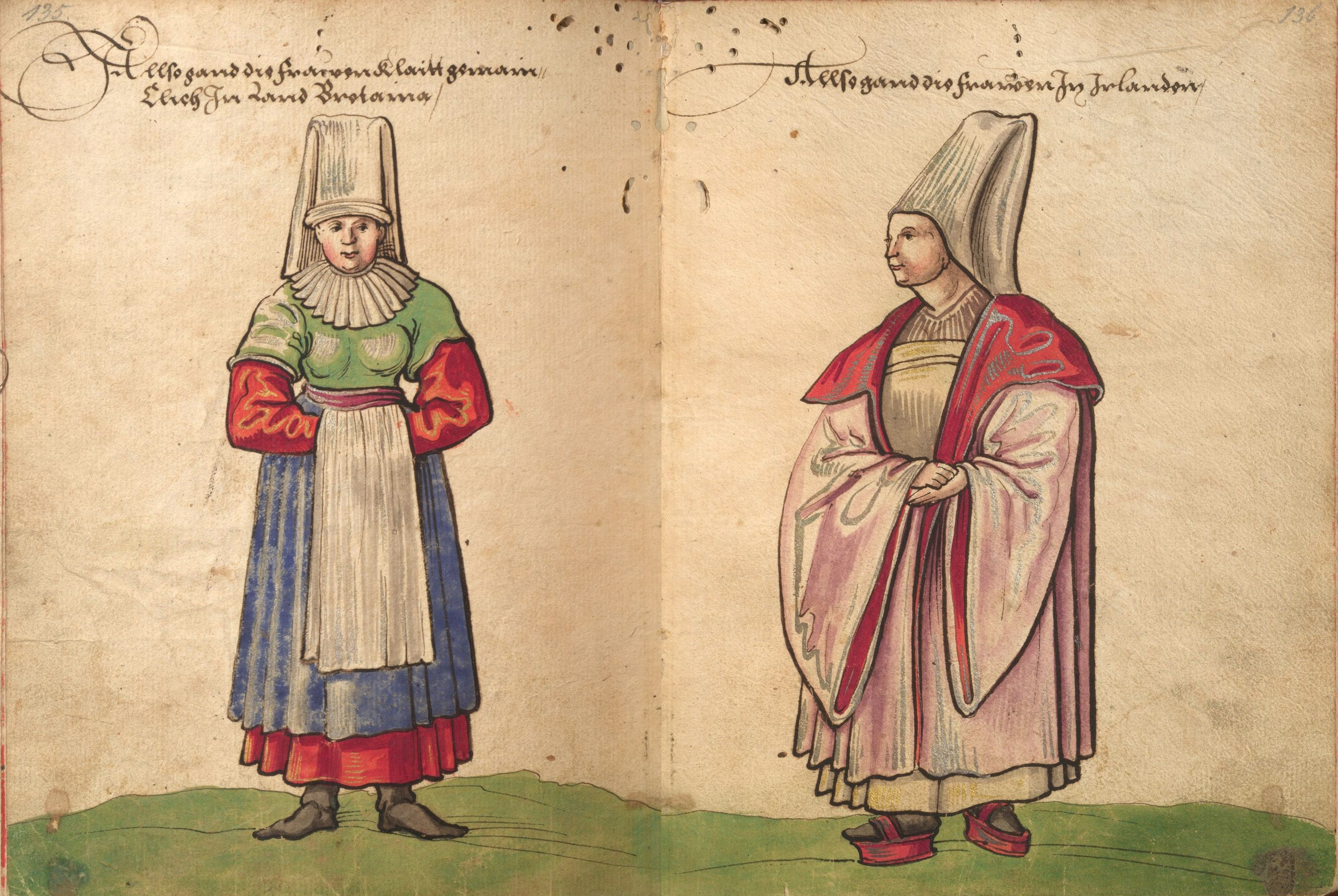 "Costume book" (Trachtenbuch) of Christopher Weiditz, German National Museum in Nuremberg, Hs. 22474. Pp. 135-136 Women's costume in Brittany (on left). Female costume in Ireland (on right).